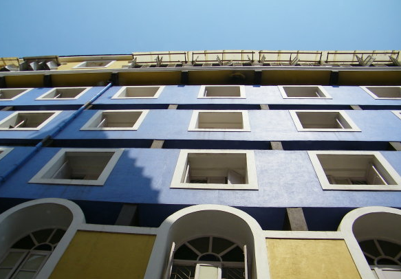 The rear view of the Mushtifund Saunstha Main Building, which houses three of its schools.